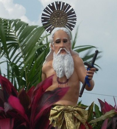 Patrono Popular Masaya: San Jeronimo, celebracion 30 de Septiembre